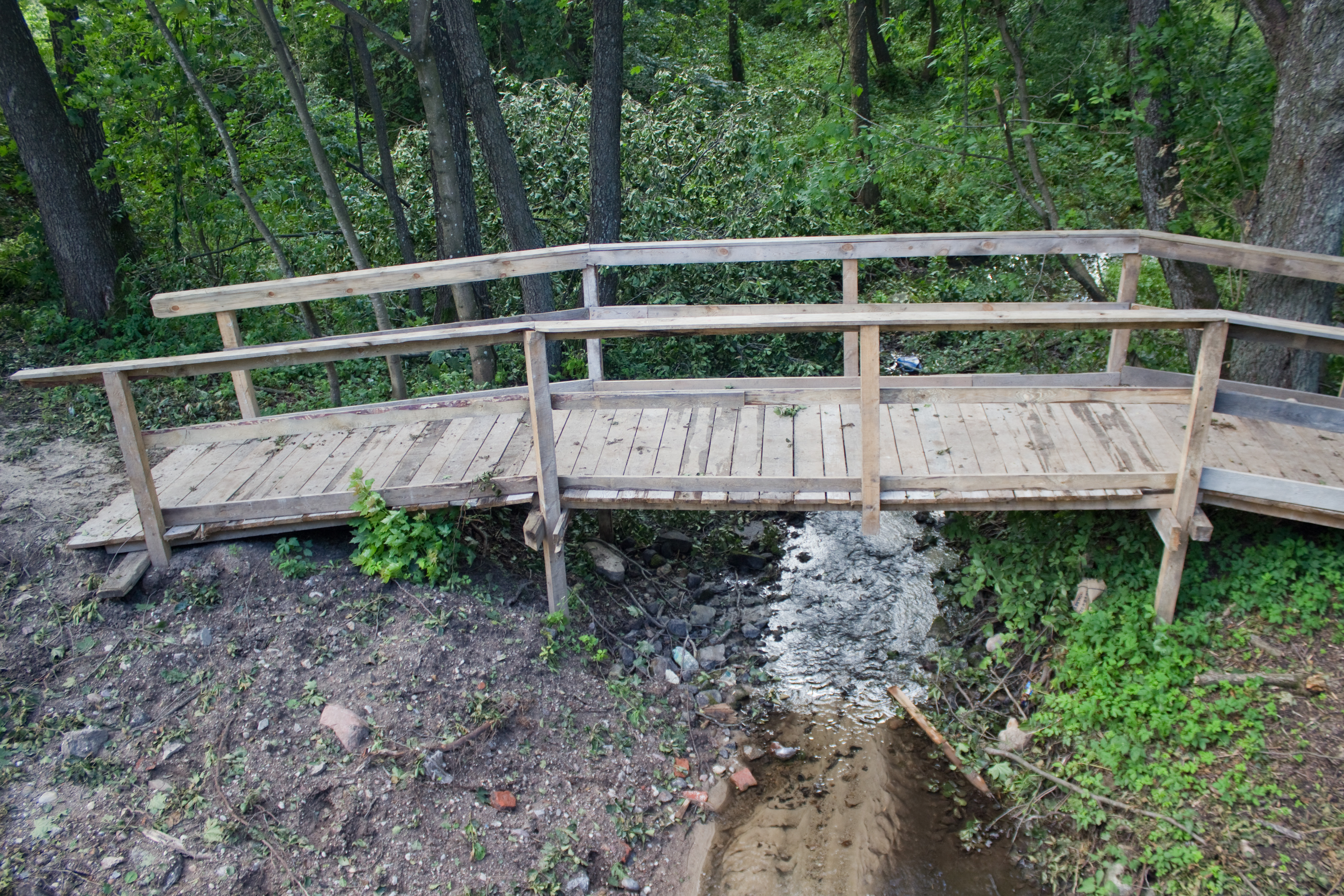 Bridge, Dudki, gmina Kalinowo, powiat ełcki, Warmian-Masurian Voivodeship